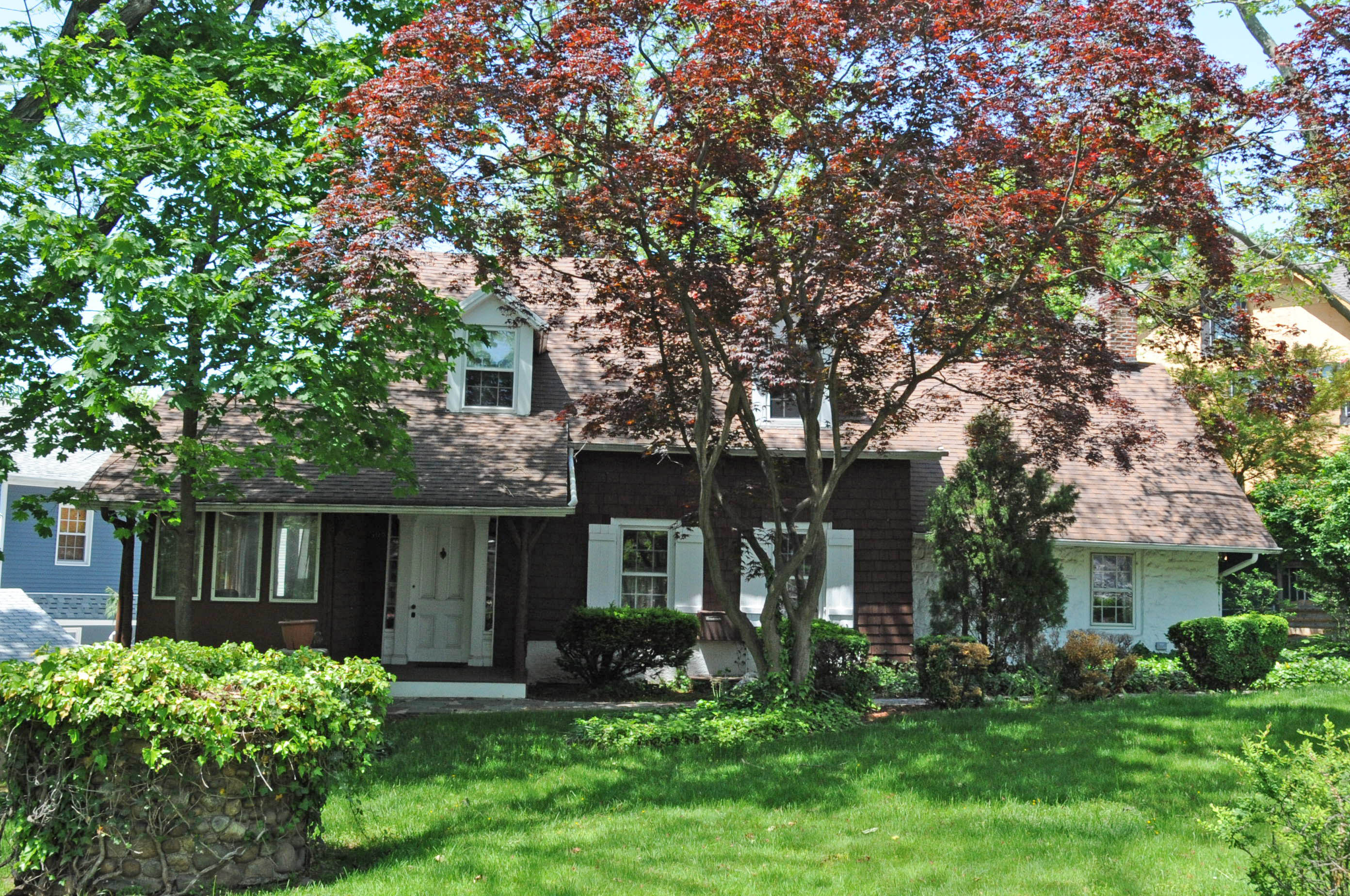 BUILT IN 1730 AND ADDED TO IN 1760. PETER HOUSEMAN, A MILLWRIGHT, BOUGHT THIS HOUSE FROM THOMAS DONGAN, GREAT-NEPHEW OF THE COLONIAL NEW YORK GOVERNOR OF THE SAME NAME, AND EXPANDED THE STRUCTURE. HOUSEMAN WOULD LATER BE KILLED BY ROBBERS THERE IN 1784, AND HIS SON JOHN, A RICHMOND COUNTY SUPERVISOR AND ASSEMBLYMAN, WOULD TAKE OVER THE ESTATE